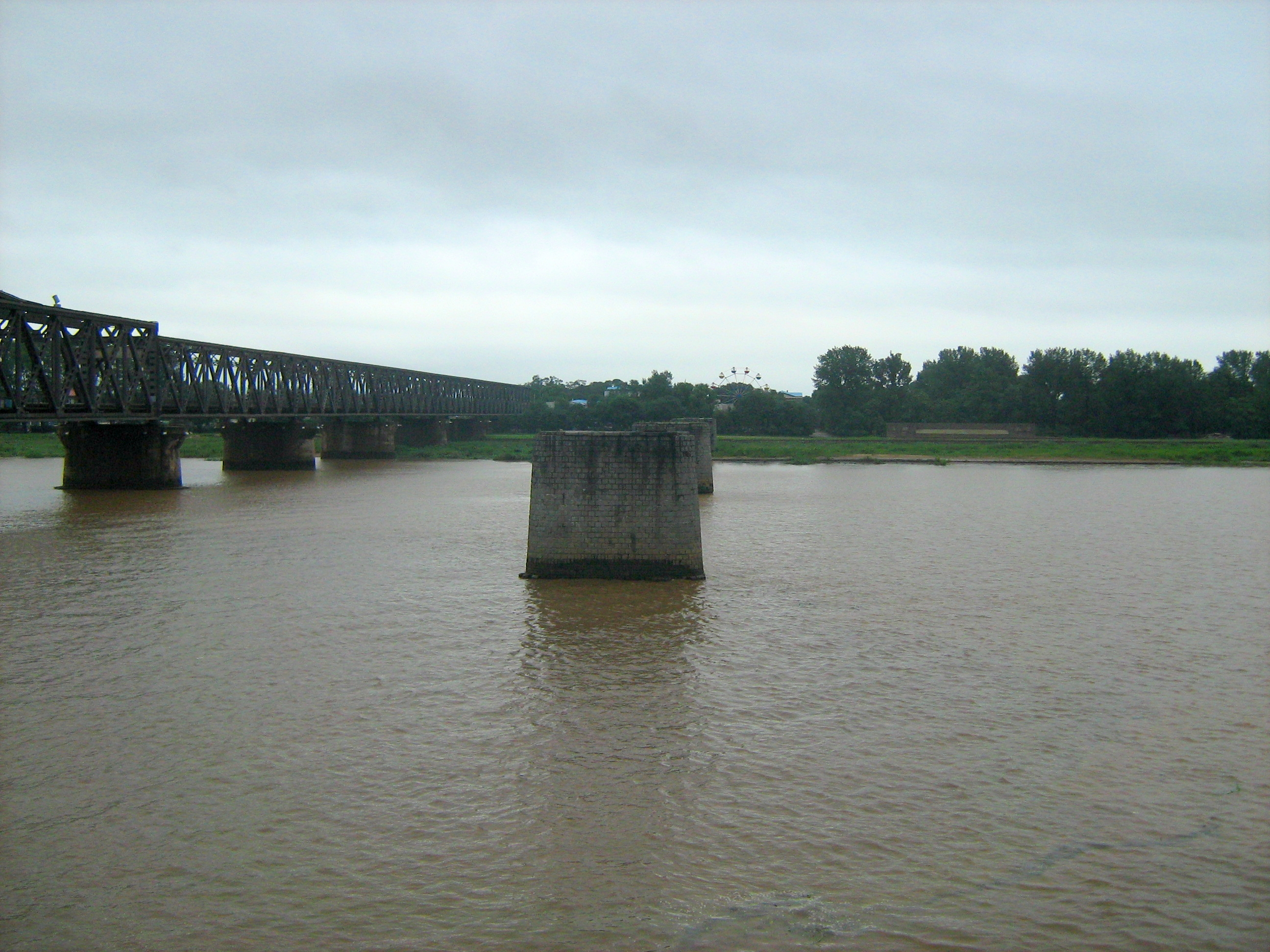 This shows the bridge destroyed during the Korean War. It used to link Dandong, China, with Sinuiju, North Korea. It is preserved as a tourist attraction and memorial of the war.